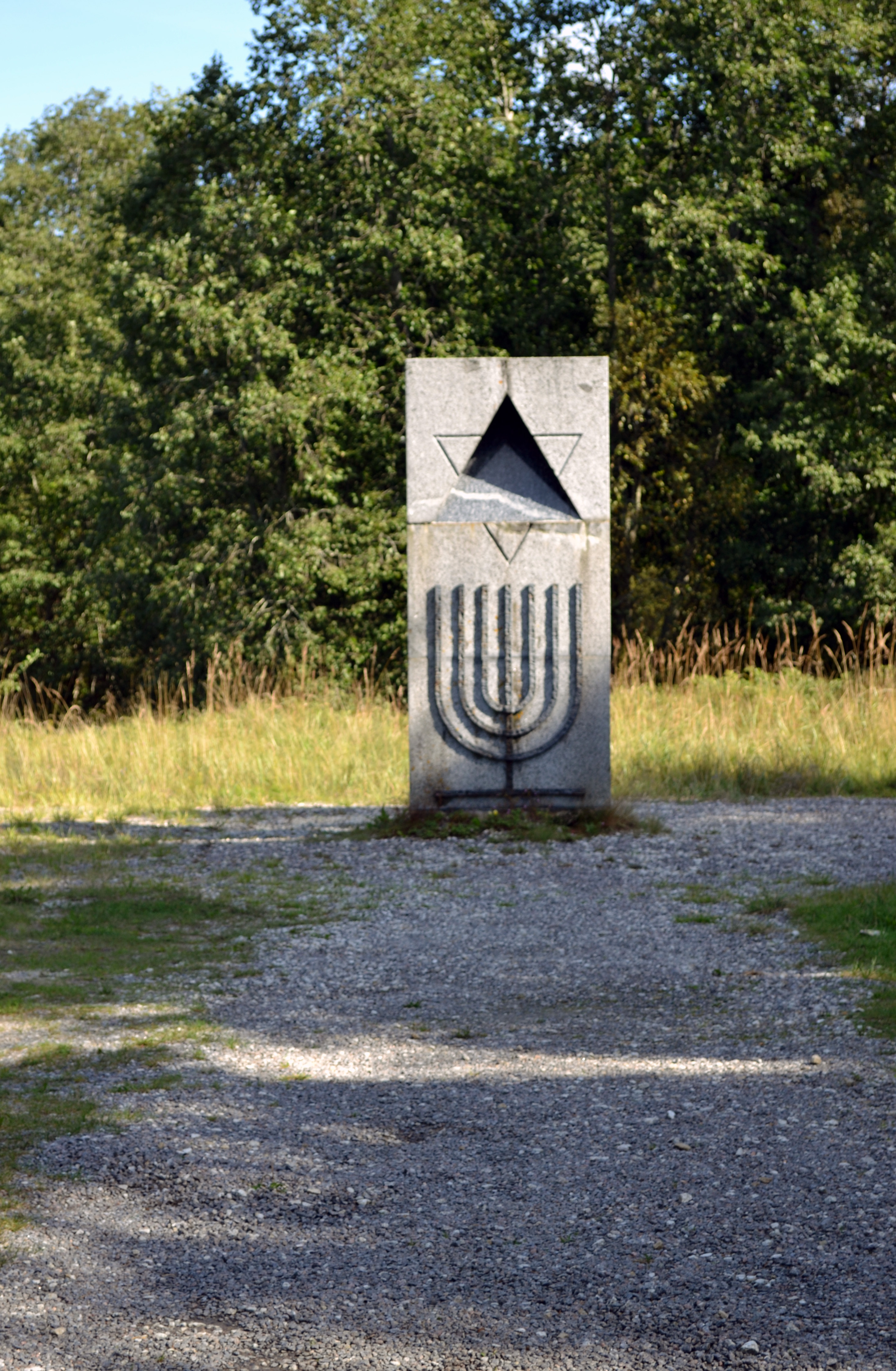 Holocaust memorial in Klooga, Estonia.